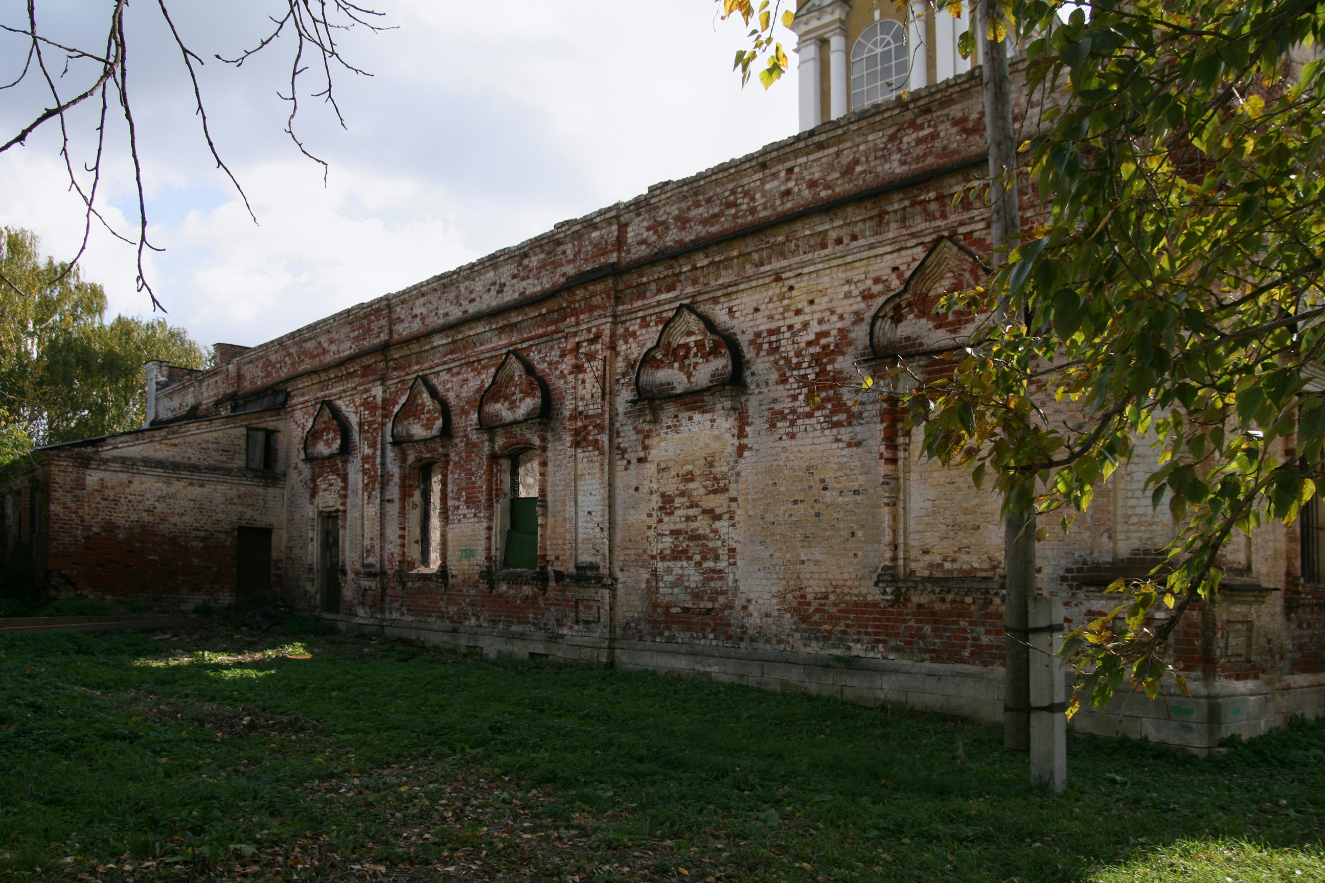 Sretenskaya Refectory Church of Rizopolozhensky Monastery, Suzdal, XIX c